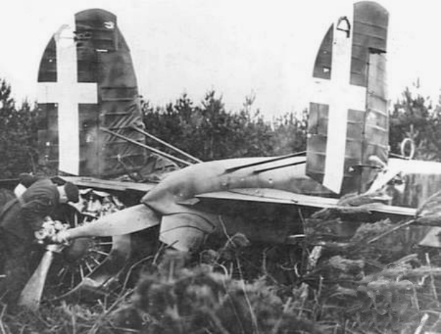 A crashed Italian Fiat BR.20M bomber in Britian. Italy formed the "Corpo Aereo Italiano" with 13° and 43° Stormi (80 BR.20Ms) in September 1940. They flew attacks on twelve days between 24 October and 10 January 1941, losing three aircraft to enemy fire, and 17 for other reasons.